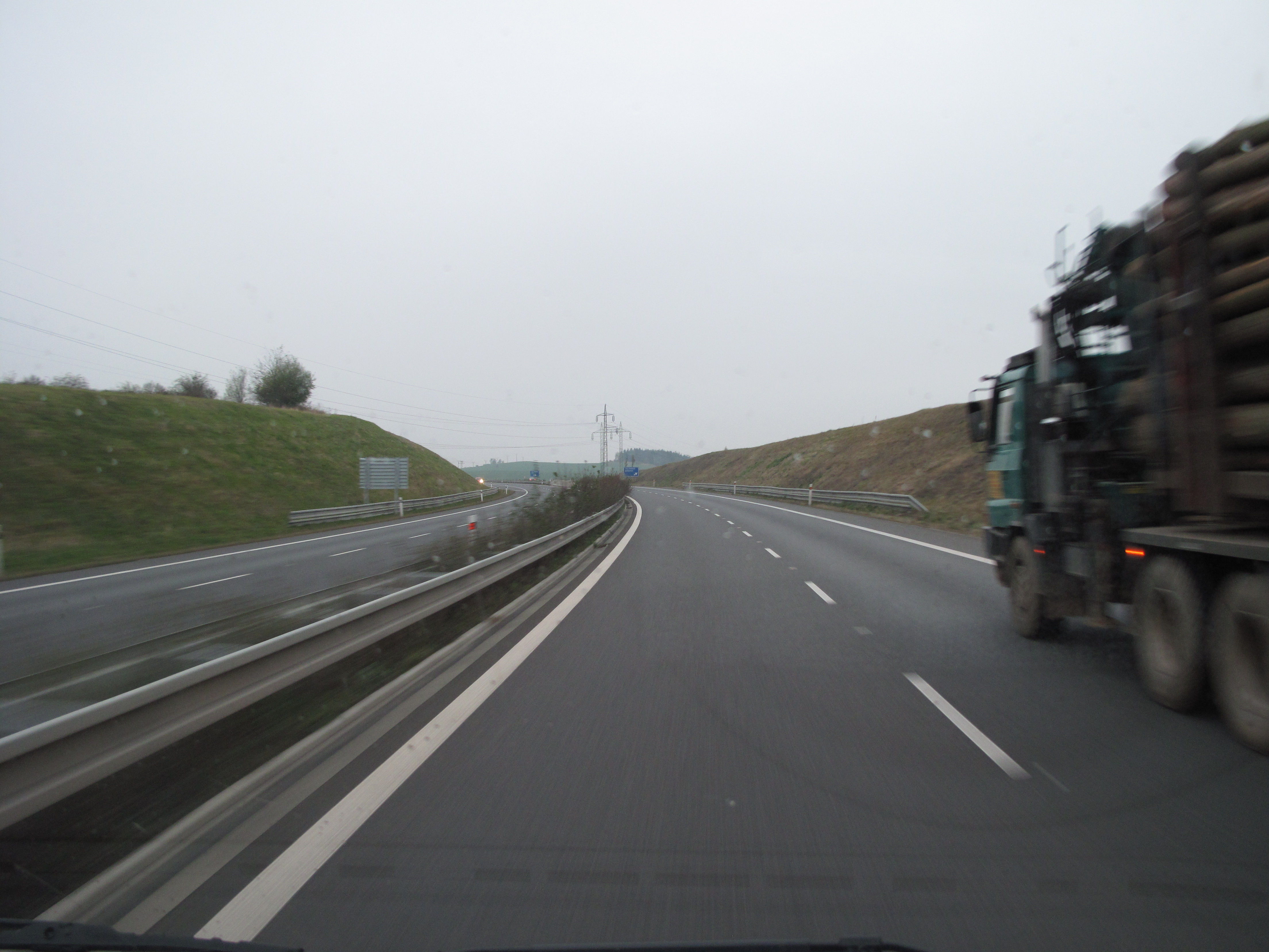 Road I/20 (E49) near Chlaponice village, Písek District, Czech Republic.